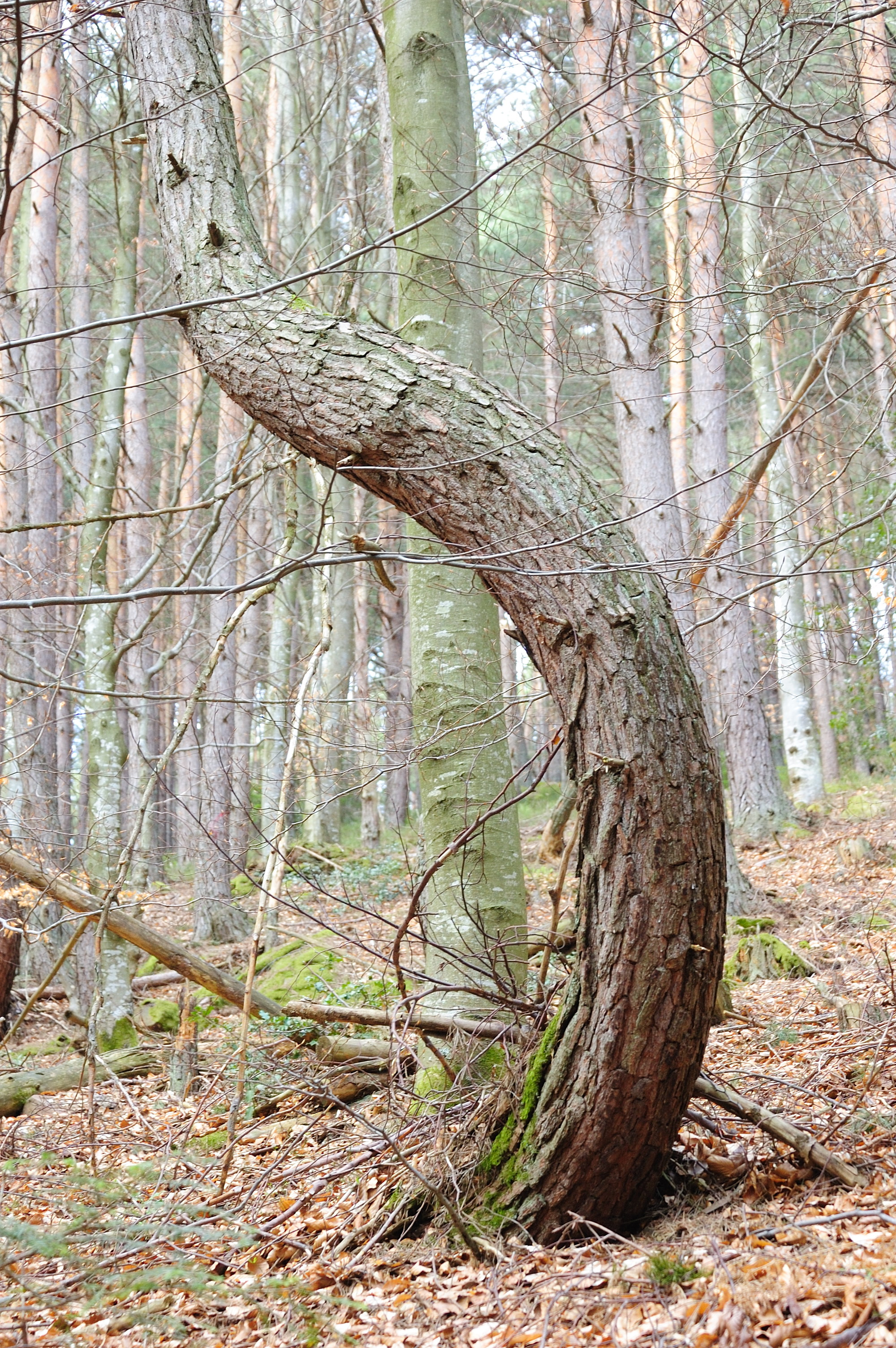 Tree, curved